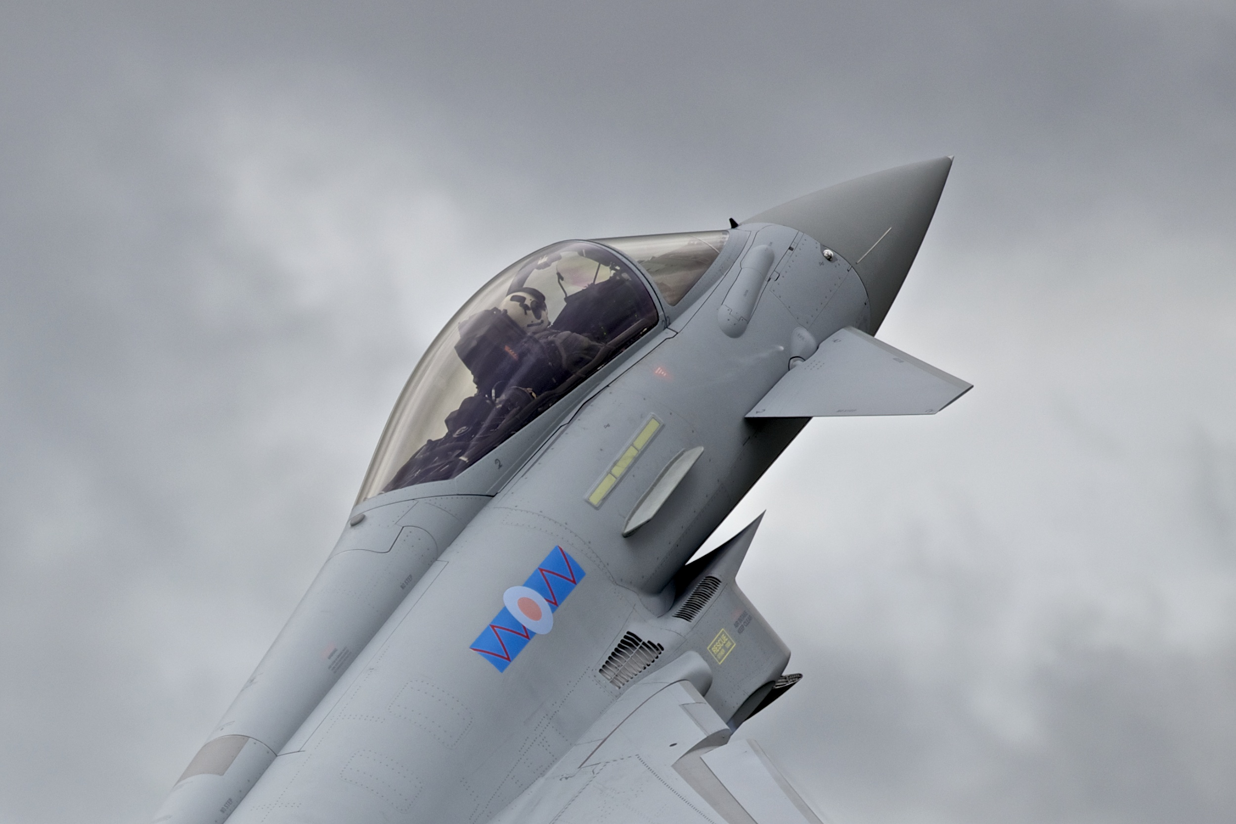 Royal International Air Tattoo 2012